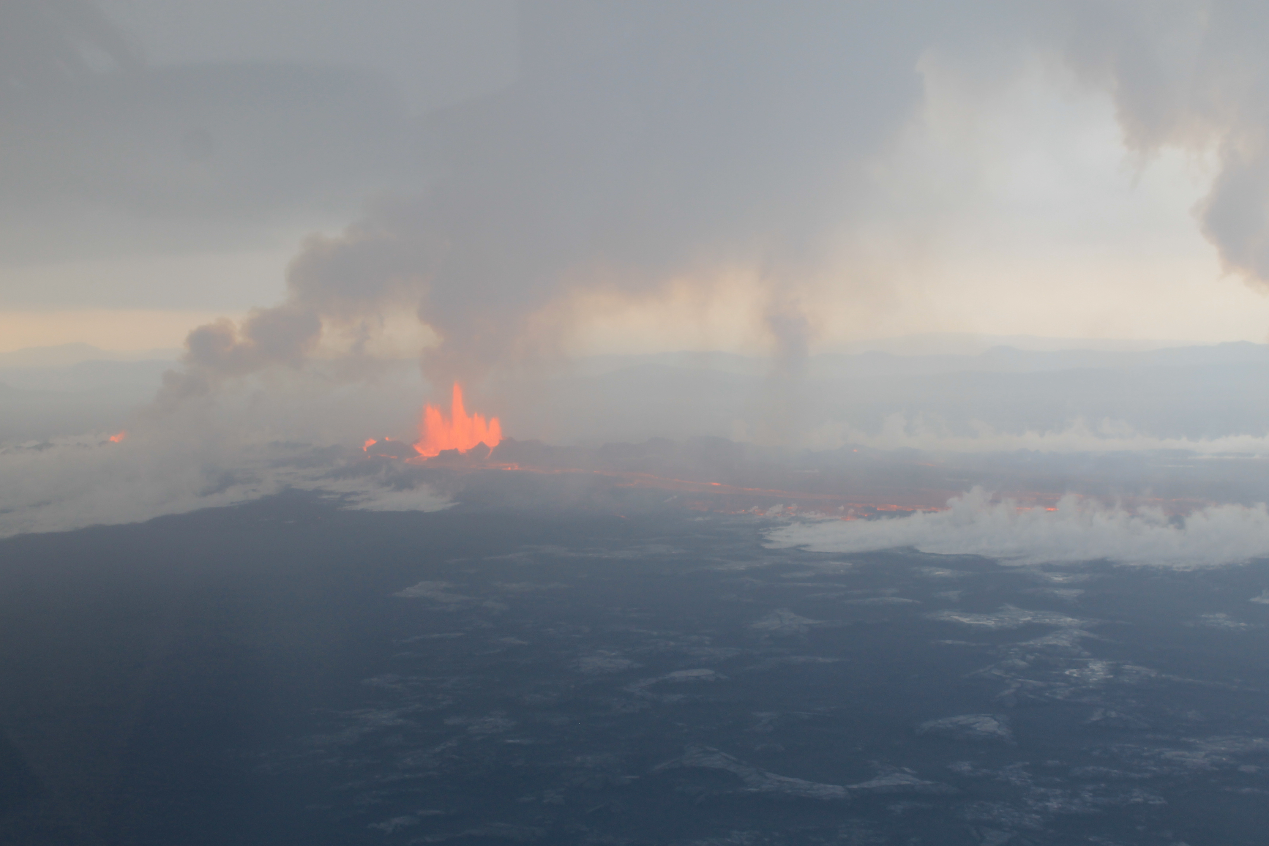 Pictures taken by Peter Hartree between 14.30 and 15.00 on September 4th 2014. I'm sorry for the less than ideal quality of these - this wasn't a professional photo shoot. All photos are unedited. I have a bunch more (fairly similar) shots - if you'd like to see them, write to . Many thanks to pilot Siggi G for the ride.